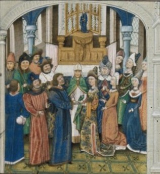 Marriage of Waleran, count of St Pol, to Maud